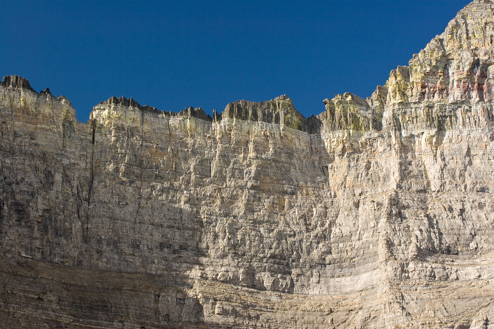 Sedimentary rock layers (light coloured) capped by a sill of diorite (dark coloured) at Iceberg Lake Ridge in Glacier National Park in Montana, USA.